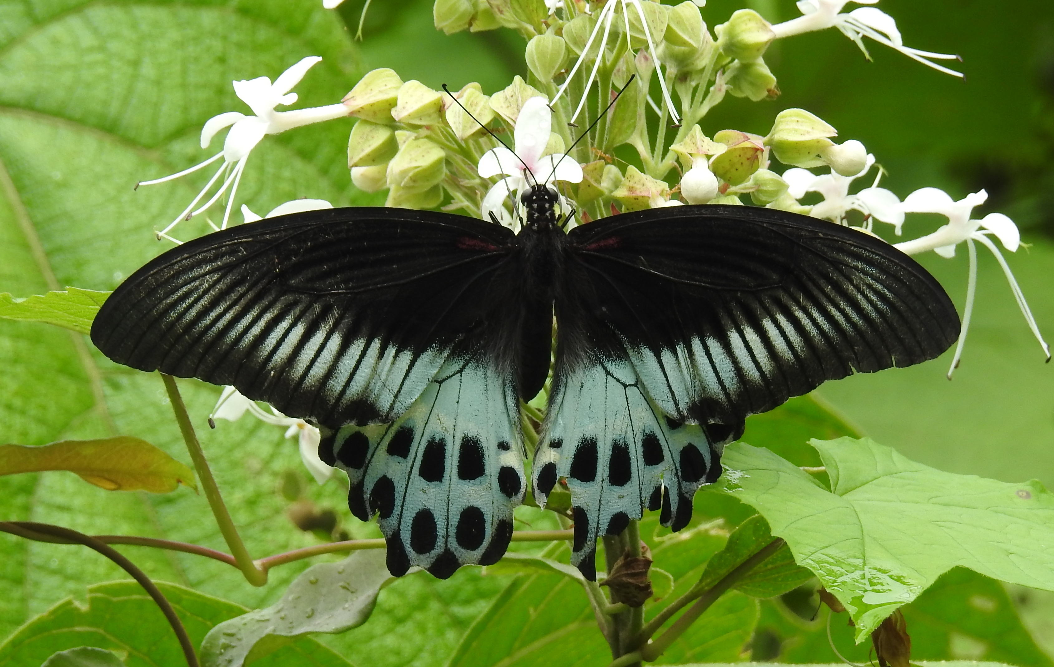 Blue Mormon Papilio polymnestor. Image by Dr. Raju Kasambe. Location Amboli, dist. Sindhudurg, Maharashtra, India.